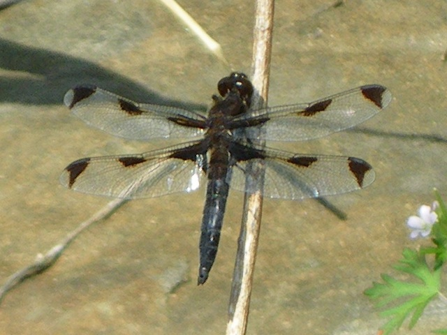 Libellula angelina Sélys,1883. Male, at Saikai, Nagasaki. May, 2009.